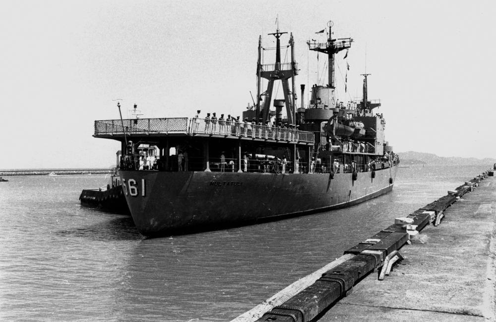 KRI Mulatuli, an Indonesian Navy command ship